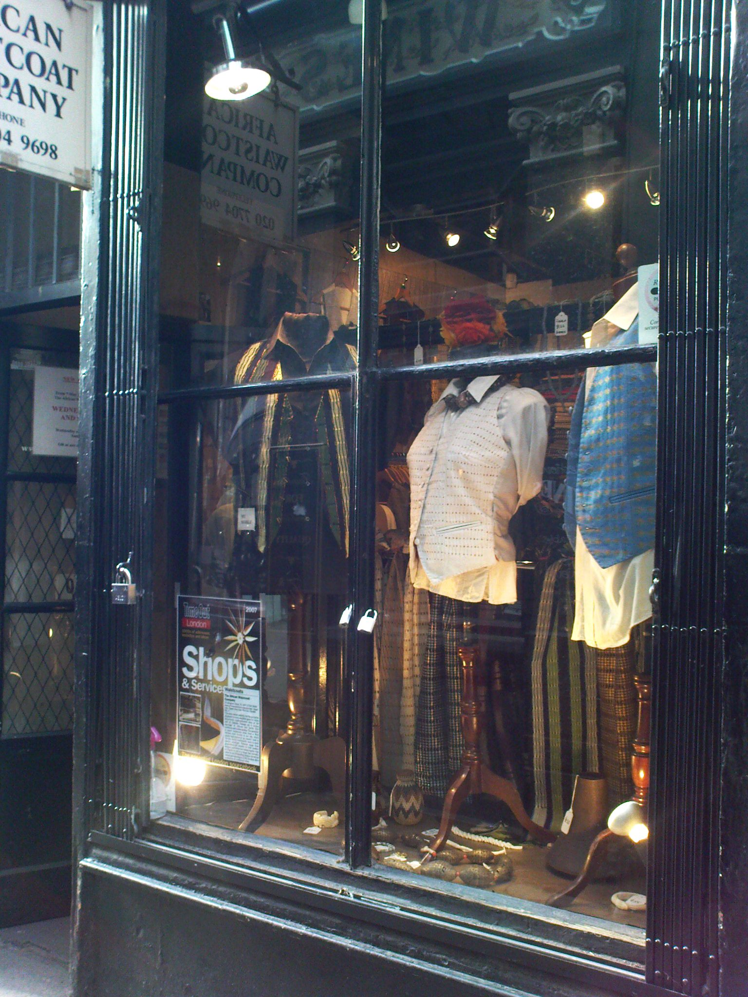 Shop in Islington (London), Camden Passage